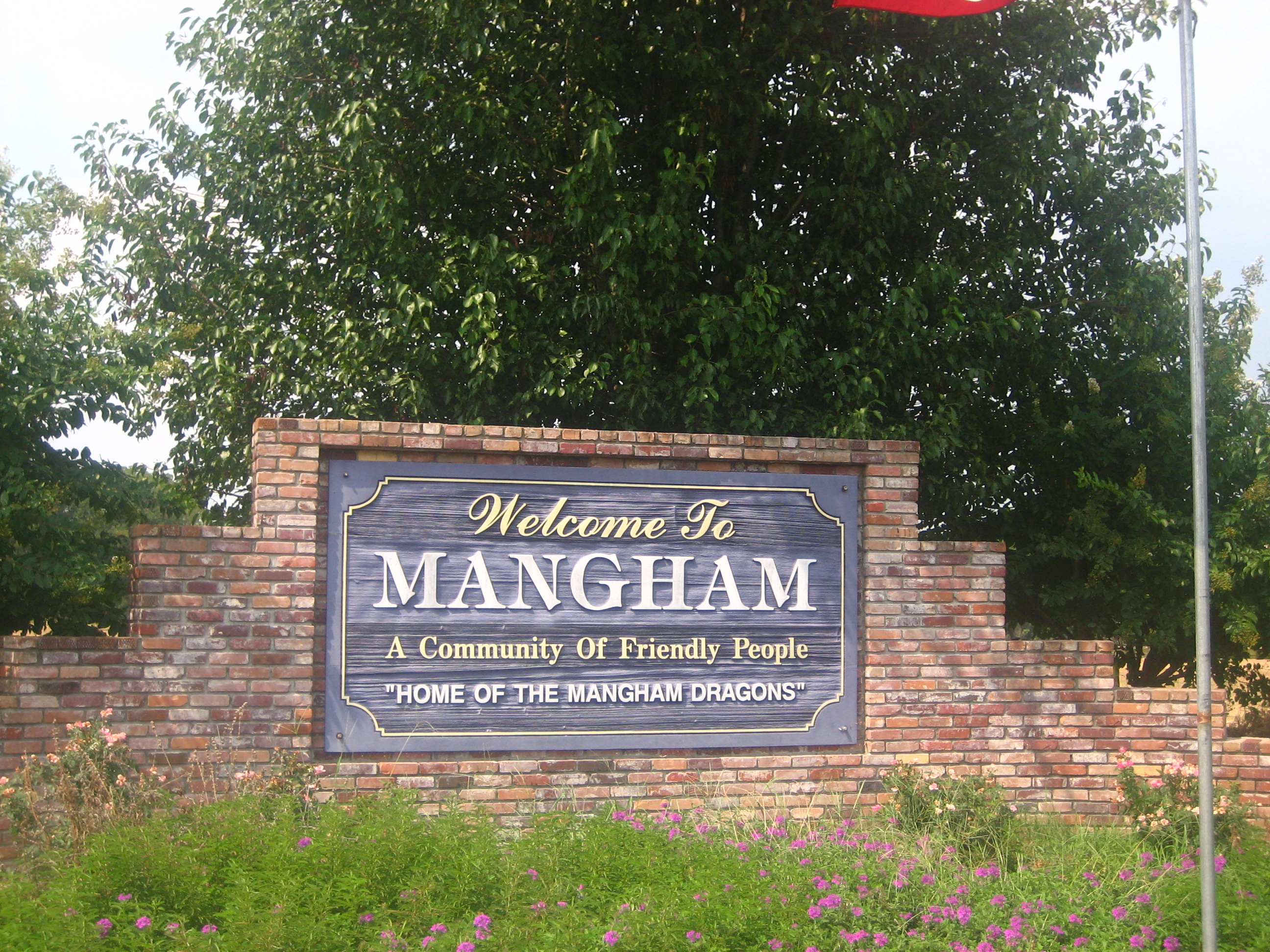 I took photo on Aug. 2, 2008.Billy Hathorn (talk) 15:01, 16 August 2008 (UTC)